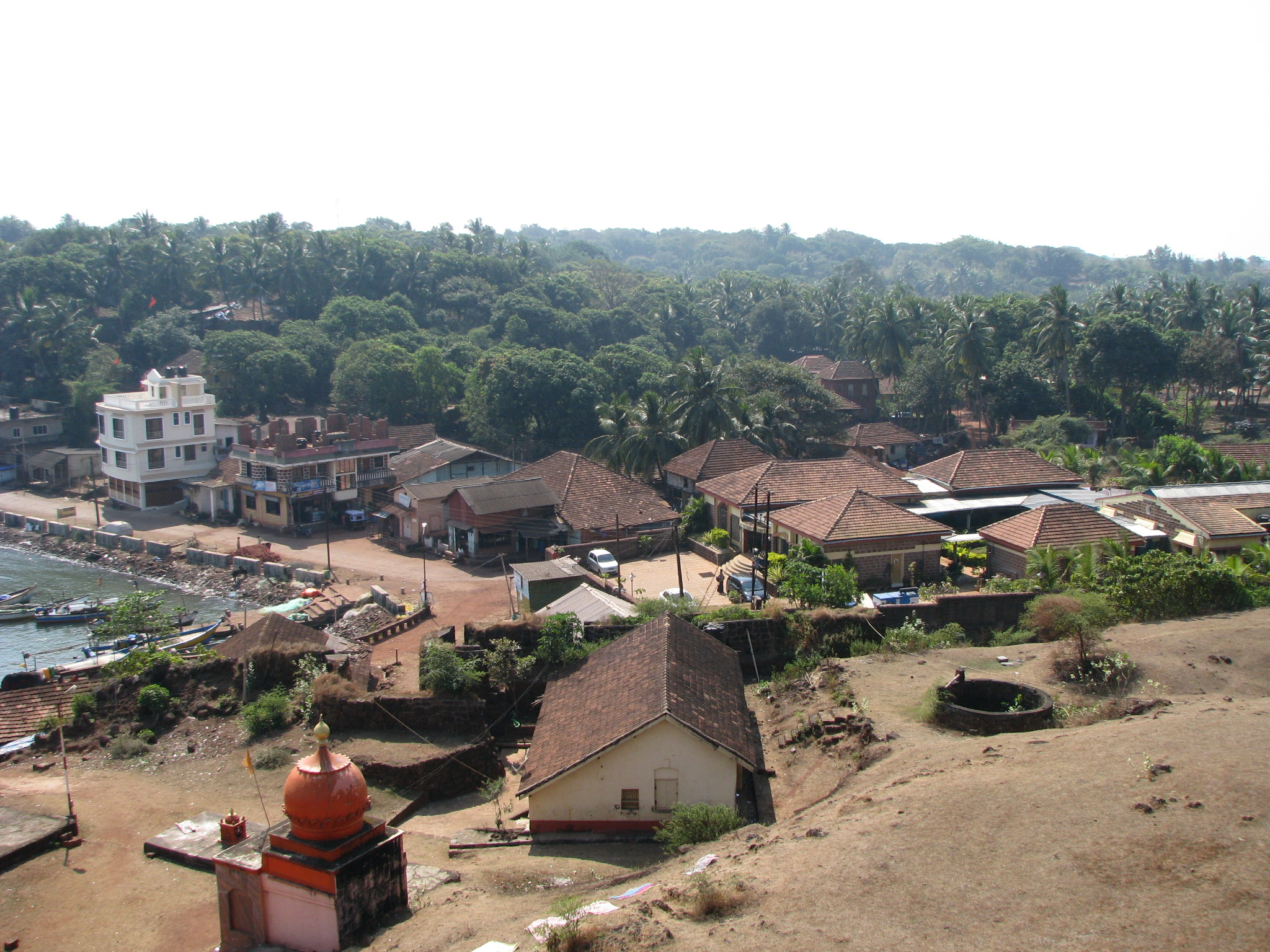 View of Vijaydurga Village from Vijaydurga Fort.